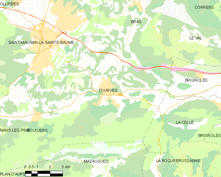 Map of French municipality Tourves